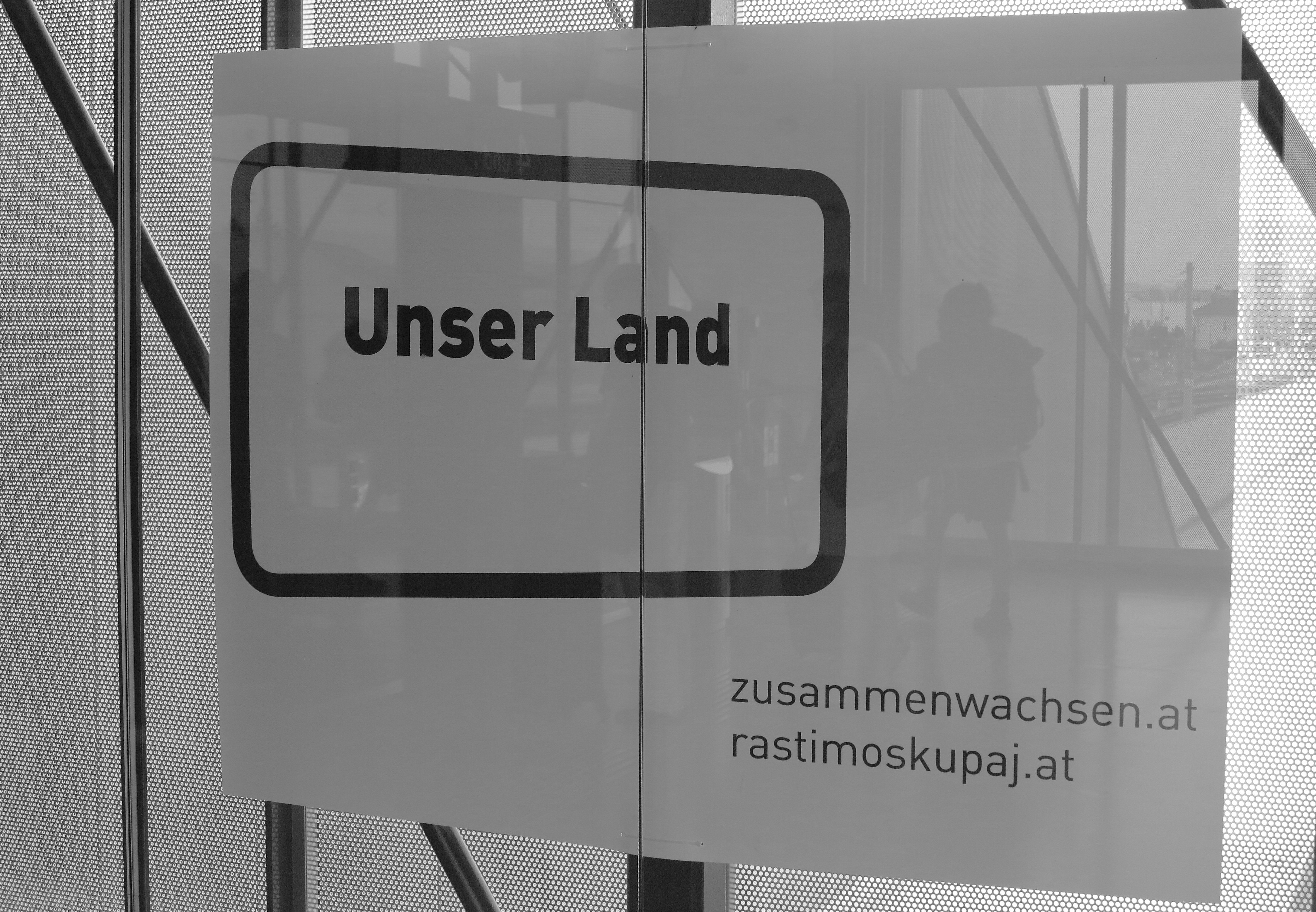 Sign in on the reconciliation initiative "Our Land" between German and Slovenian-speaking Carinthian at the main station of Klagenfurt in Carinthia / Austria / EU.